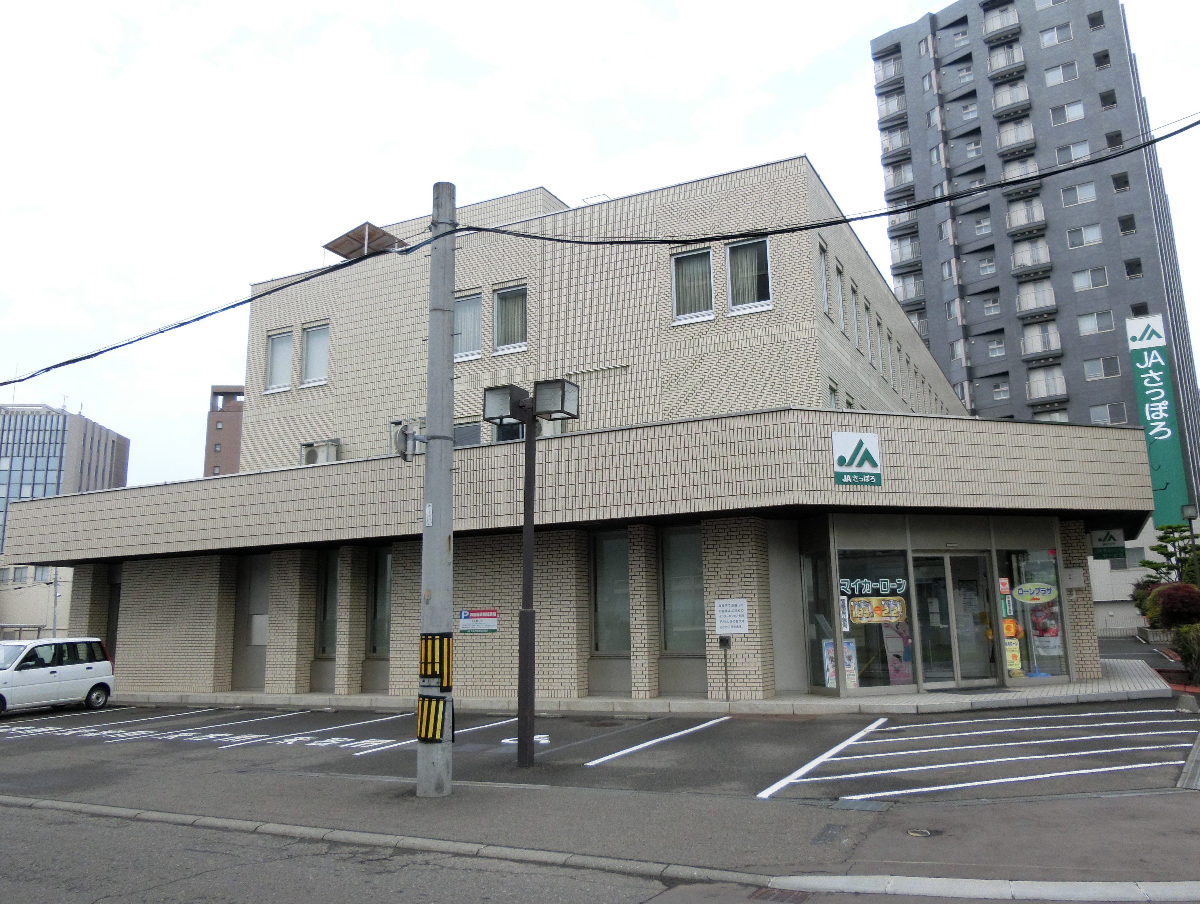 JA Sapporo located in North 10 West 24, Central Ward, Sapporo, Hokkaido